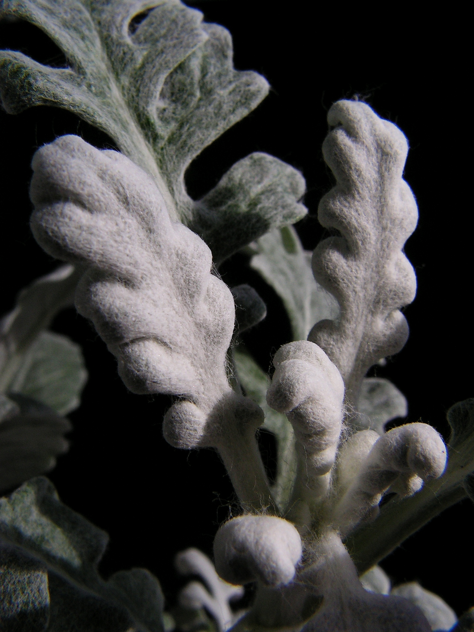 Top of the shoot of Silver Ragwort.